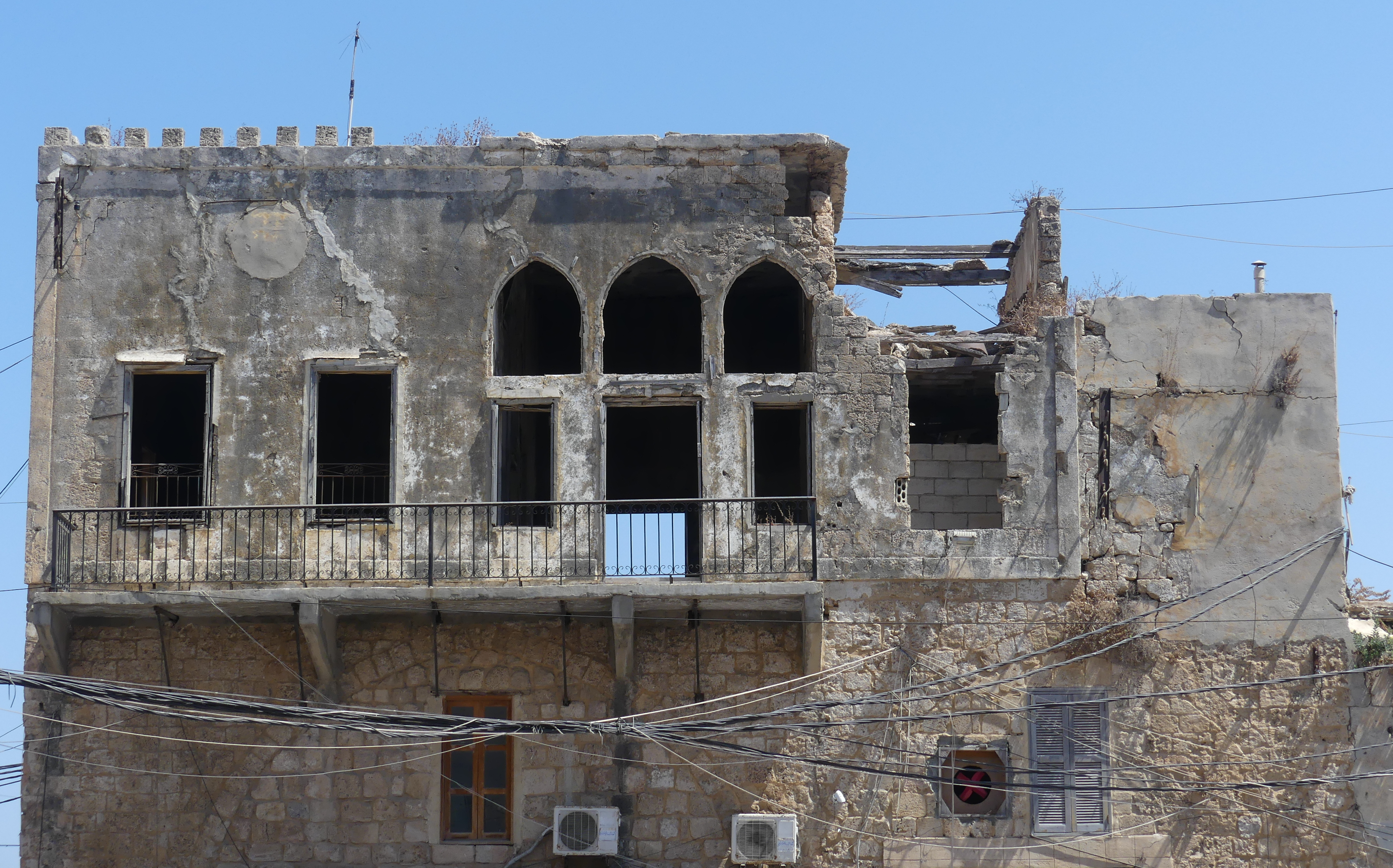 The ruins of the historical building complex that used to house the Empire Cinema in the harbour area of Tyre/Sour, Southern Lebanon, heavily damaged by Israeli bombardment following the 1978 South Lebanon conflict.